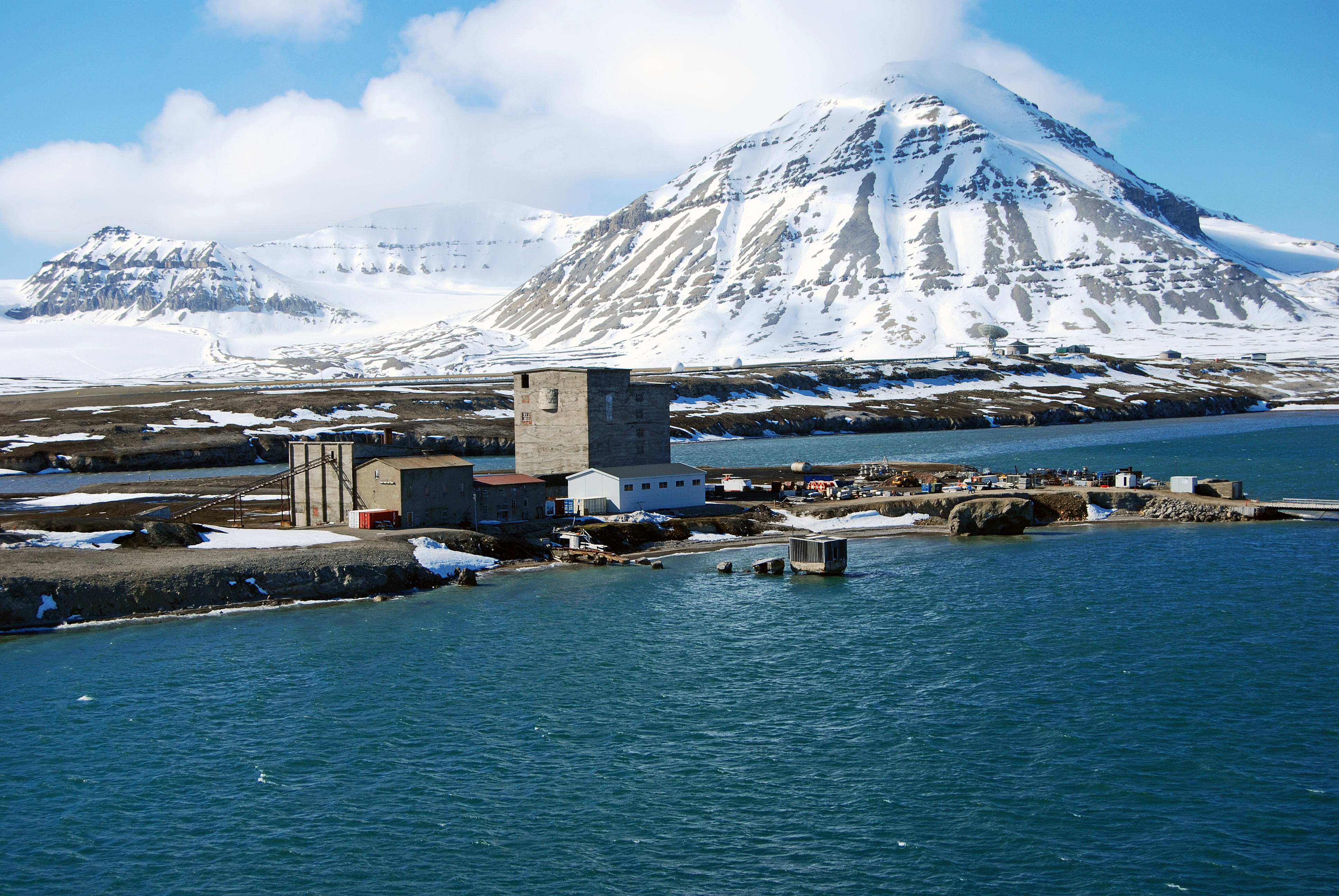 Ny-Ålesund is one of the four permanent settlements on the island of Spitsbergen in the Svalbard archipelago. It is one of the world's northernmost functional public settlement at 78°55′N 11°56′E inhabited by a permanent population of approximately 30–35 scientists and support staff